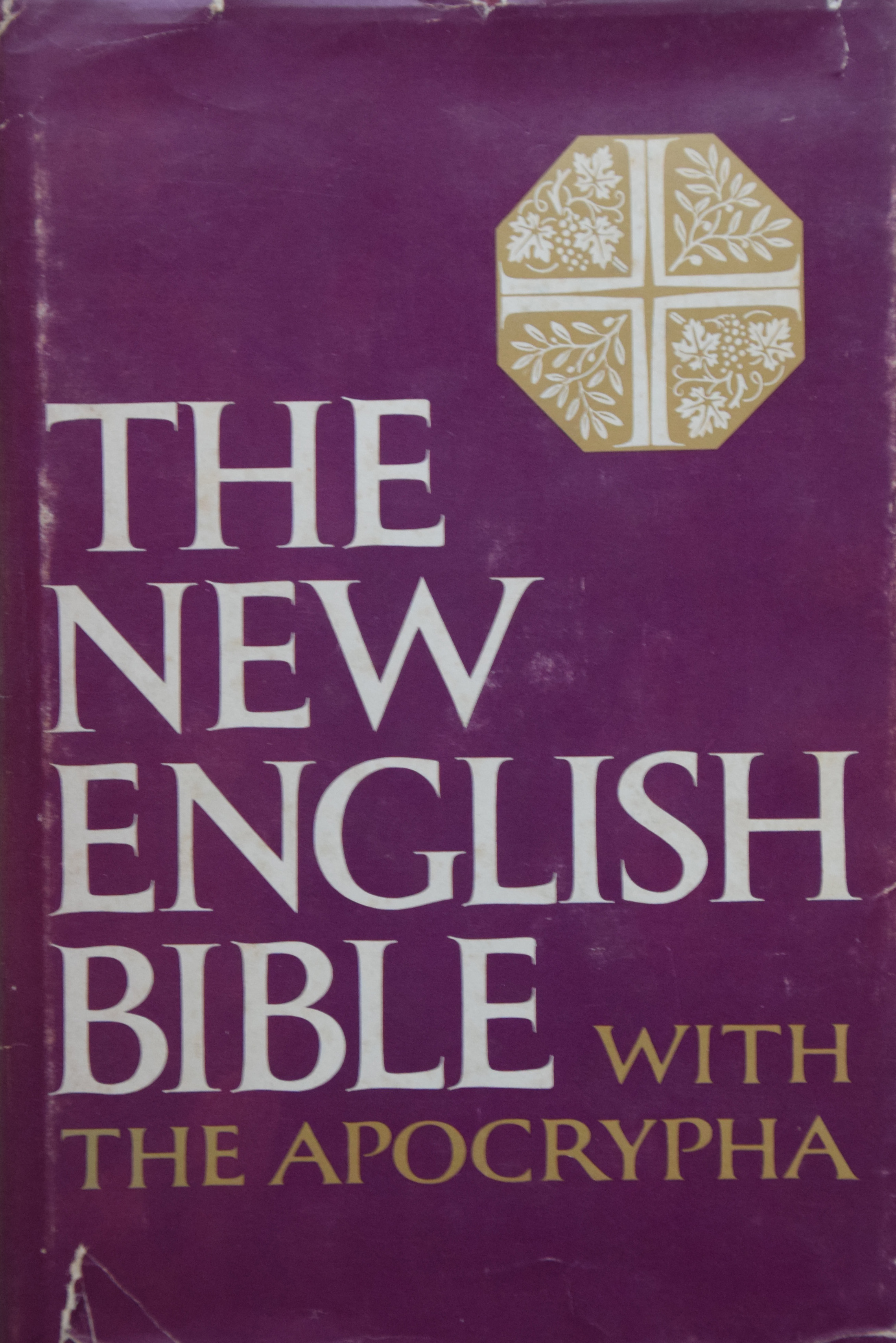 The New English Bible with the Apocrypha cover